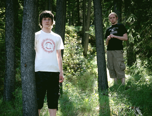 Teardrop members, Jono & Pete Renton